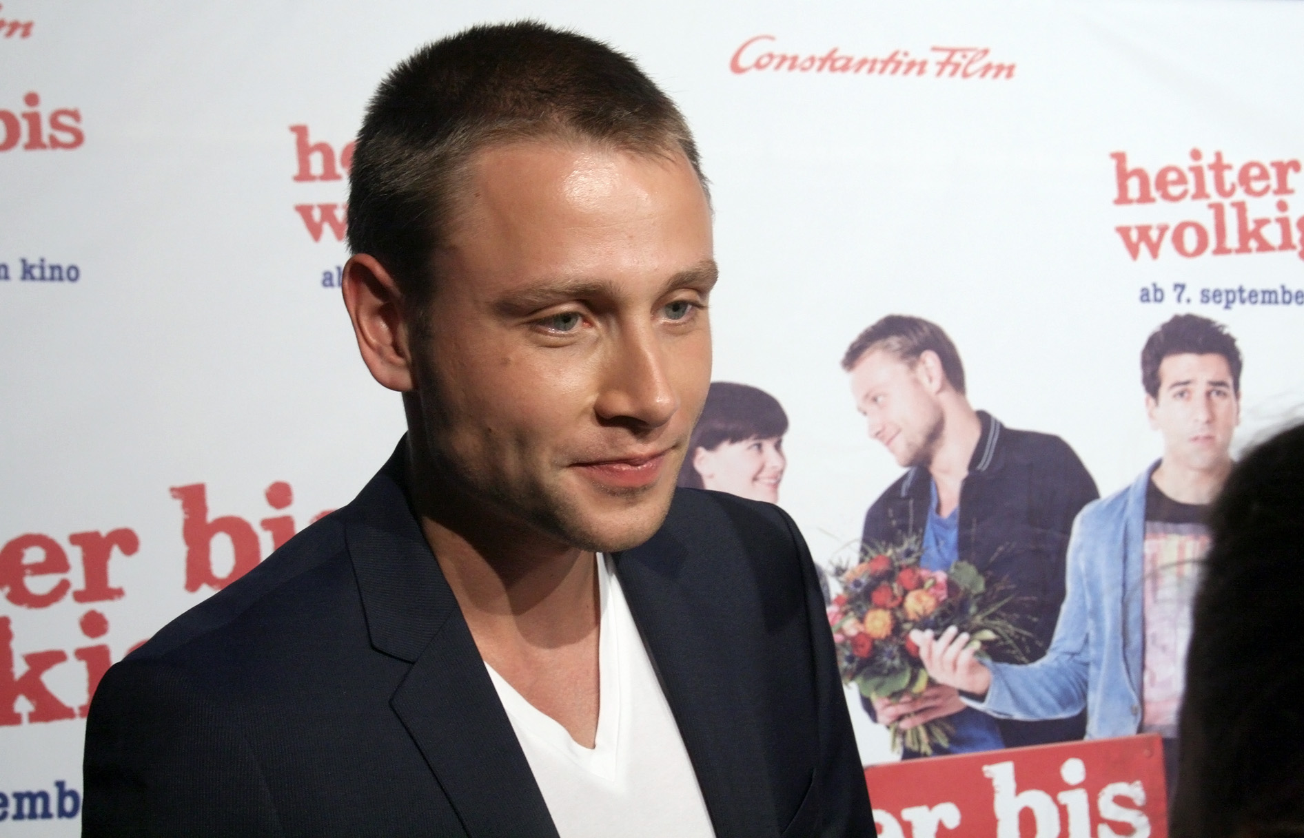 Max Riemelt at the Austrian premiere of Heiter bis wolkig at Urania cinema in Vienna, Austria.